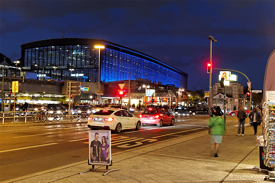 Station Berlin Zoologischer Bahnhof, b Festival of Lights 2013, Germany